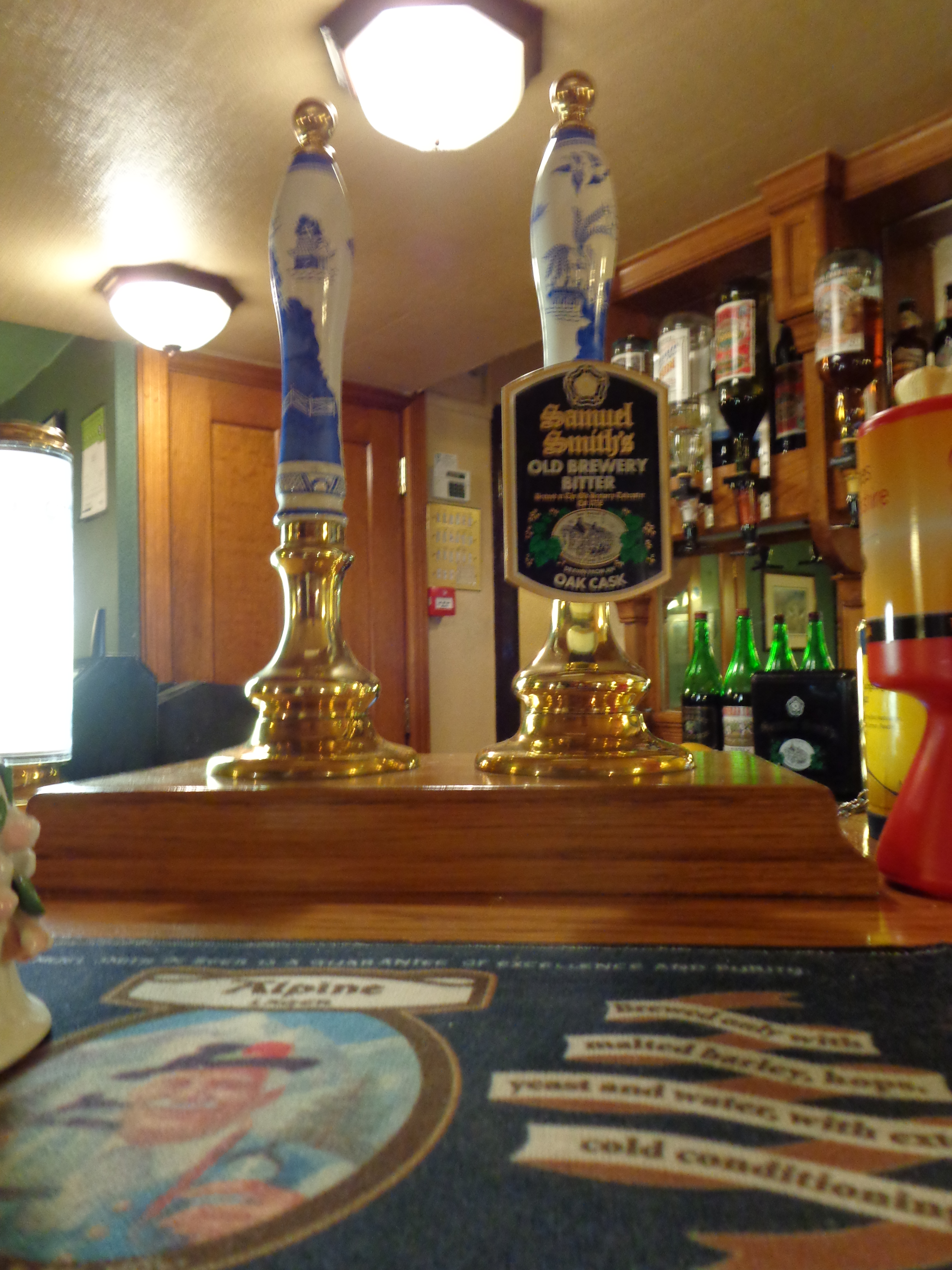 Samuel Smith's Old Brewery beer pumps on the bar in the Lounge, Railway Inn, Spofforth, North Yorkshire. Taken on the evening of Monday the 2nd of December 2013.